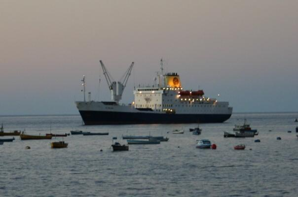 The RMS St. Helena, at anchor in James Bay, Island of St. Helena (evening) IMO Number: 8716306 Country: United Kingdom MMSI Number: 232669000 Callsign: MMHE5 Length: 102 m Beam: 20 m